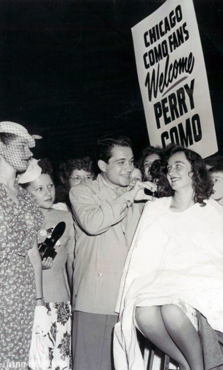 Publicity photo of Perry Como met by his young fans when he arrives at a Chicago train station.